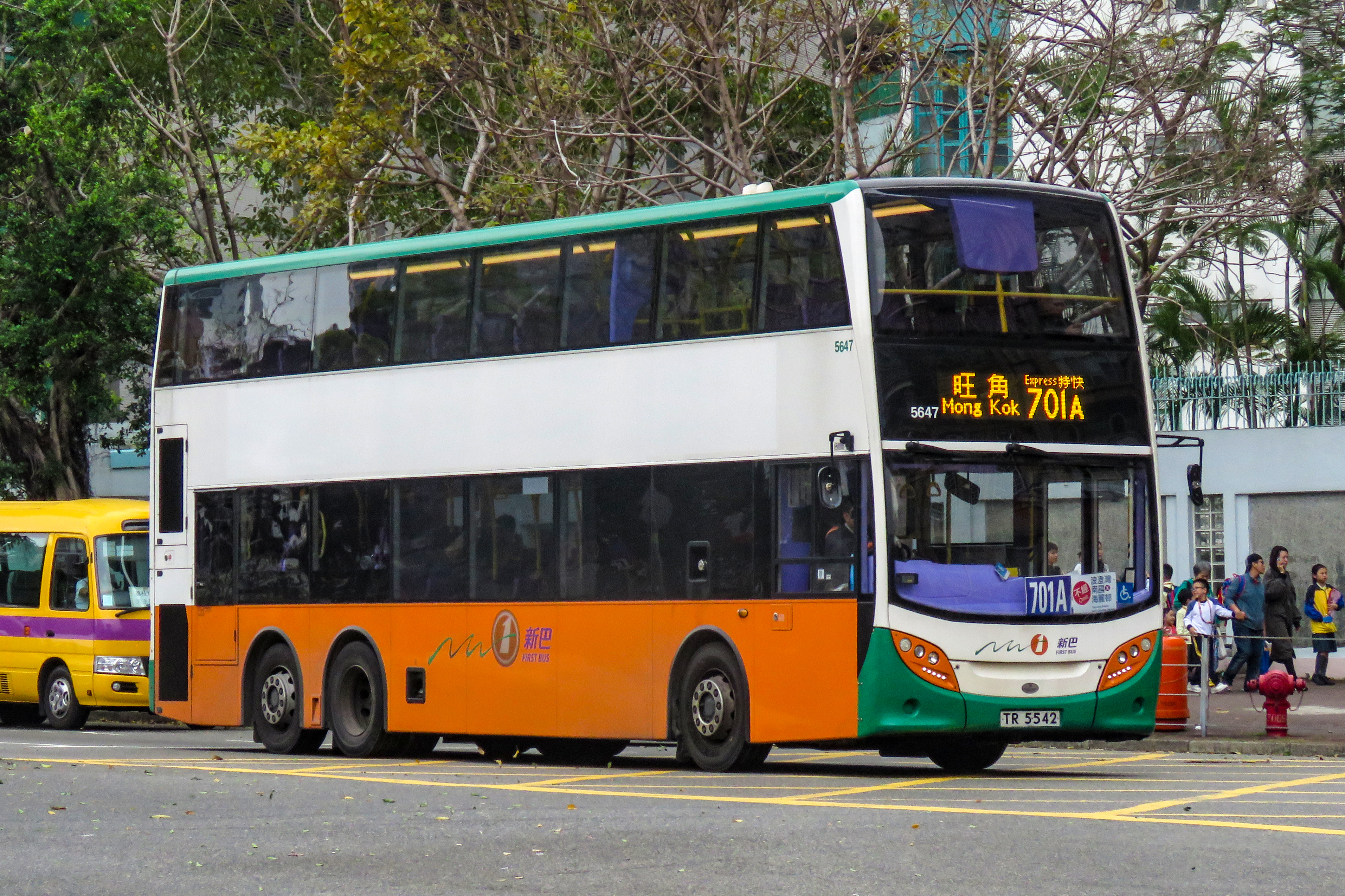 Not familiar with this route? It's a totally new route, inaugurated on 10 February 2019.